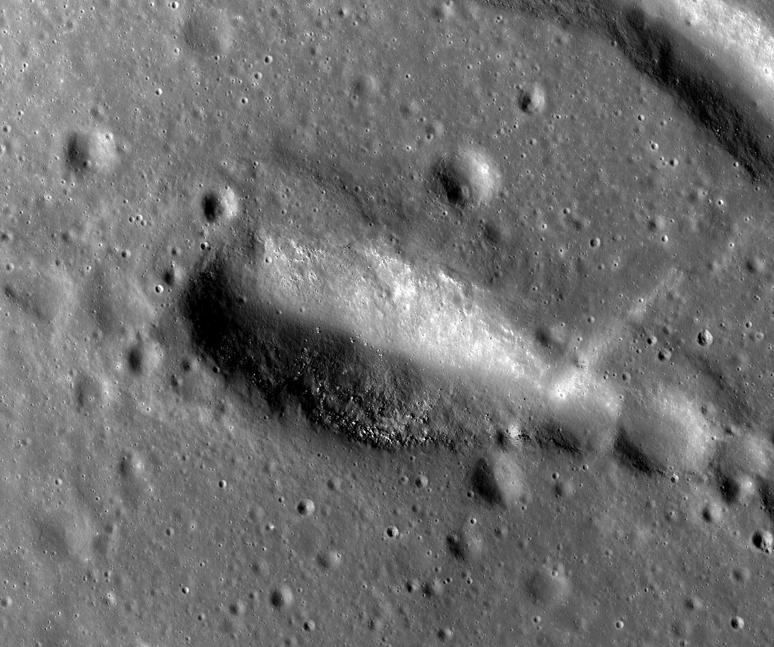 Small (2.5×1.3 km) crater Ann on the Moon, in southeastern Mare Imbrium. Centered at 25.10°N, 359.95°E (according to JMARS). Photo by Lunar Reconnaissance Orbiter, made with Narrow Angle Camera 10 October 2009 from altitude 146 km. Sun elevation is 33.1°. Width of the photo is 5.0 km, north is up.